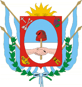 Coat of arms of Catamarca Province, Argentina.